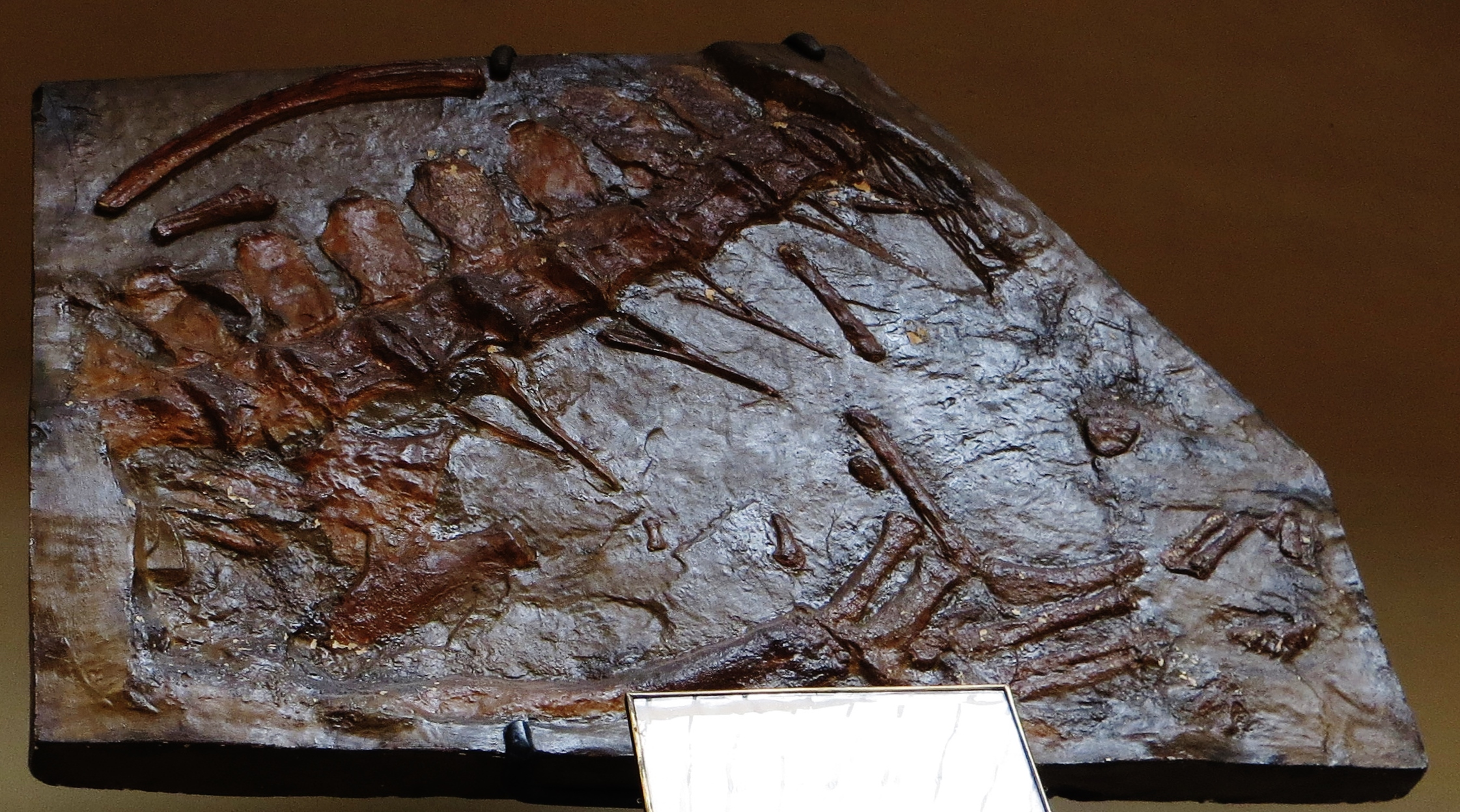 Fossil of Neustosaurus, an extinct reptile, on display at the Gallery of Paleontology and Comparative Anatomy, Paris.